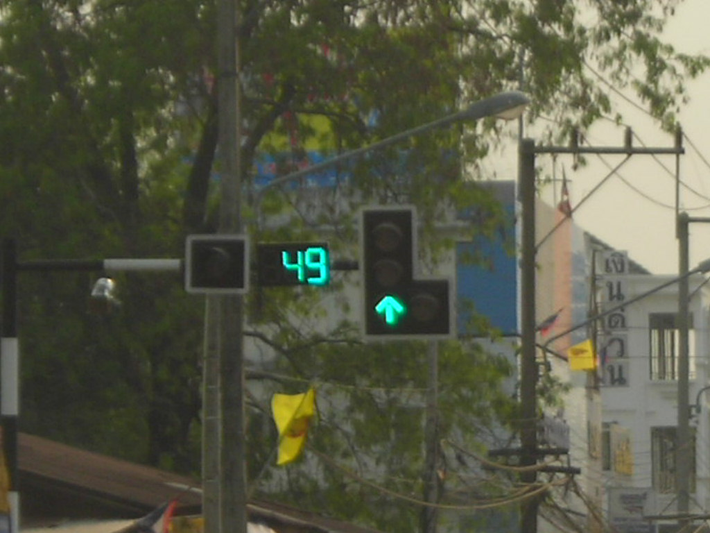 Traffic light in Thailand — Countdown to red (seen in Sakon Nakhon, Northeastern Thailand)